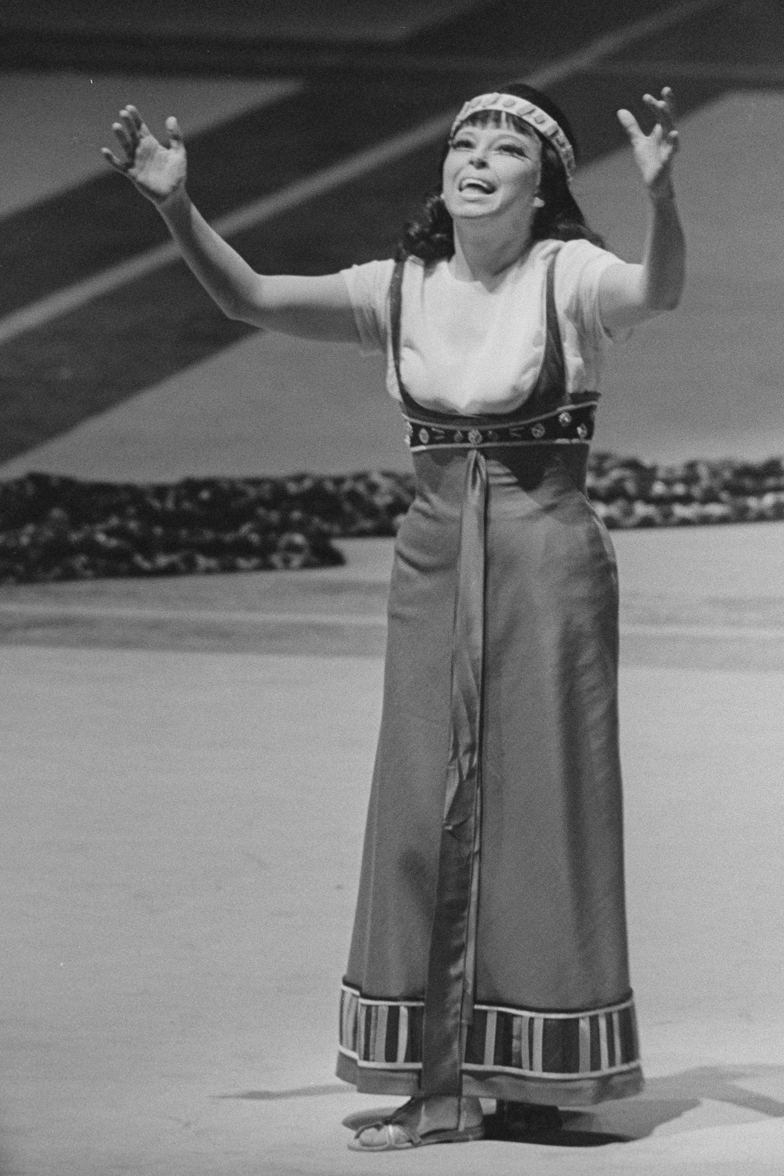 Hungarian-German soprano Sylvia Geszty as Cleopatra in Händel's "Giulio Cesare in Egitto", Berlin